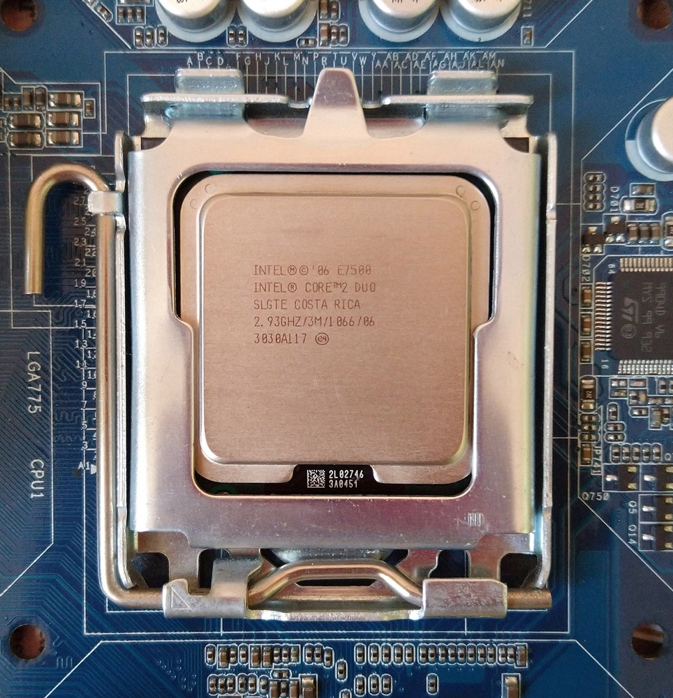 Intel Core 2 Duo E7500 2.93 GHz 3 MB Cache, installed on a ASRock N73PV-S motherboard